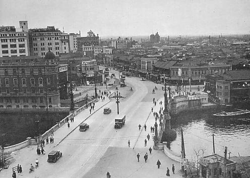 Nihonbashi in 1933